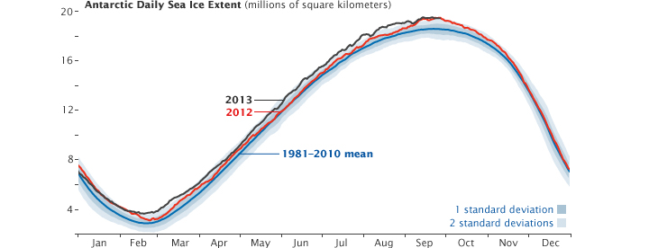 How the 2012 and 2013 Antarctic ice growth seasons compare. In 2013 (black line) and 2012 (red line), the ice reached the highest extents ever recorded, but it was only slightly above the historical average (blue line). Light blue regions show the range of natural variability.